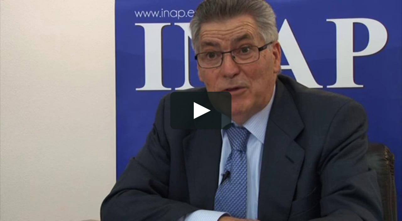 Interview given by Jorge José Luis Meilán Gil, professor of Administrative Law, within the series “The reform of the Spanish state and government”, on the occasion of his lecture “El estado autonómico: diseño, aplicación, restauración”. 5 June 2013. Aula Magna of the Atocha (Madrid) campus of Instituto Nacional de Administración Pública (INAP).